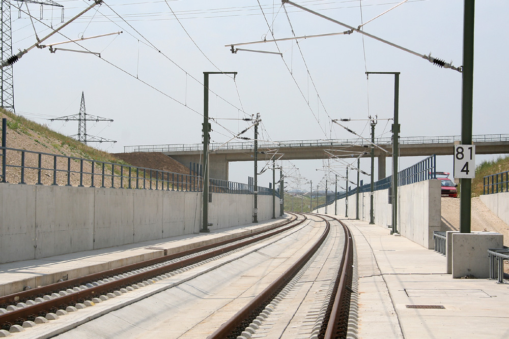 Curve cant on the Nuremberg–Ingolstadt high-speed railway line, near Geisberg-Tunnel